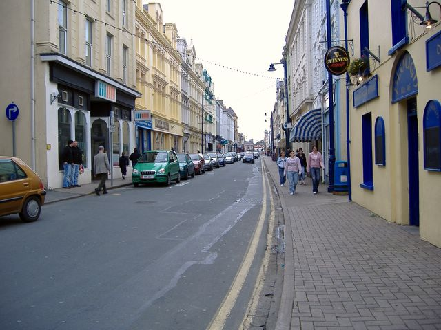 Parliament street, Ramsey, Isle of Man The main shopping street in Ramsey.